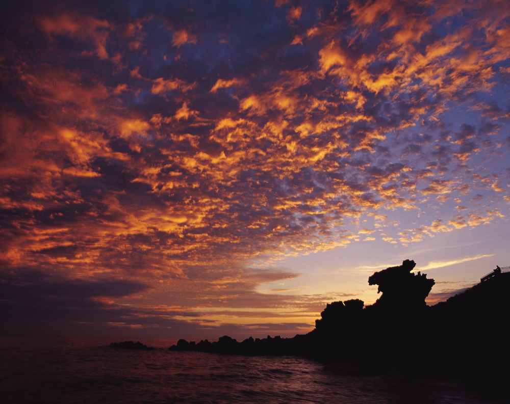 Jeju-do, a Special Self-Governing Province is the only special autonomous province of Korea, situated on and coterminous with the country's largest island.